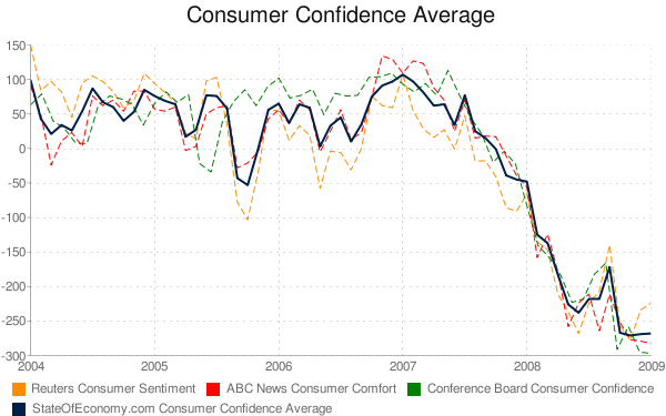 Consumer Confidence Average Index for January 2009 Produced by